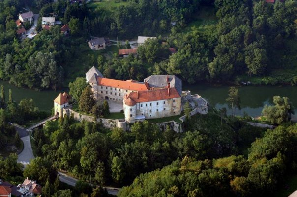 Aerial photograph of Ozalj Castle, Croatia